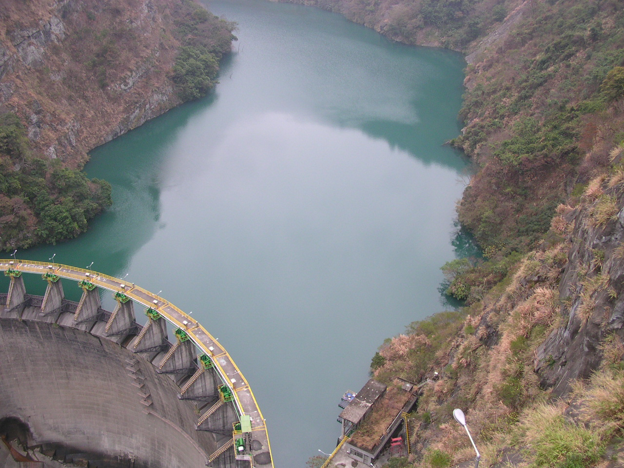 The "Jung Hua" Dam on the "Da Han" River in Taoyuan County, Taiwan